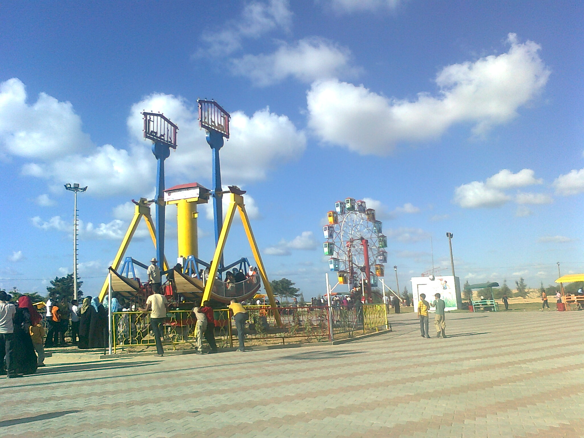 مدينة أصداء هي مدينة ملاهي ومنتجع ترفيهي بني على أنقاض المستوطنات اليهودية عقب انسحاب الجيش الاسرائيلي منها